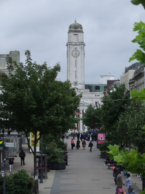 Luton Town Hall Looking along George Street to the Town Hall.